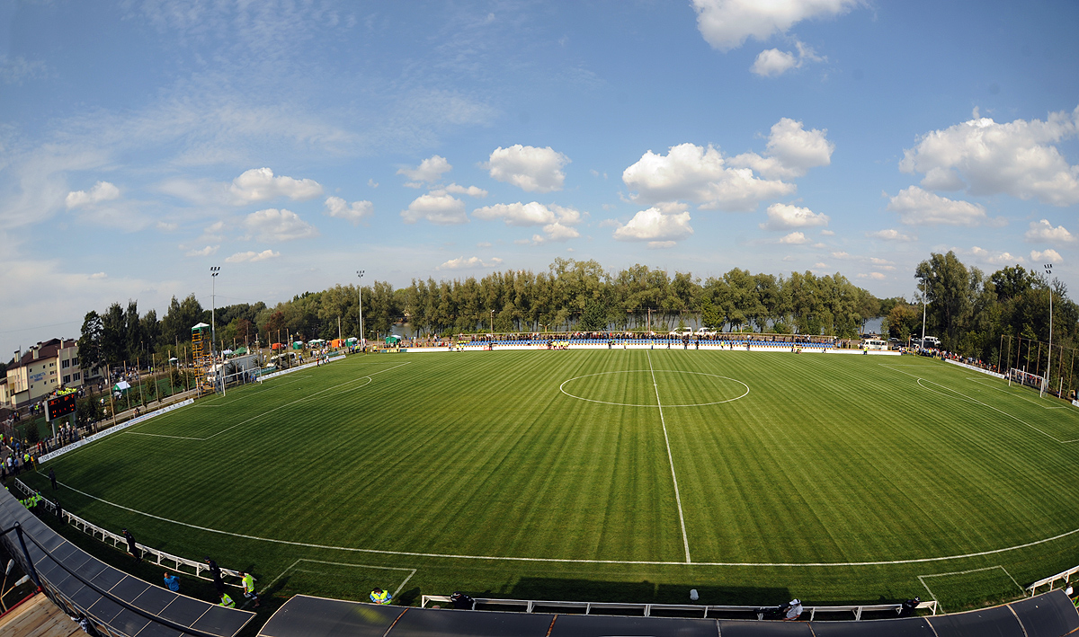 Yednist Stadium in Plysky, Borzna Raion, Chernihiv Oblast, Ukraine